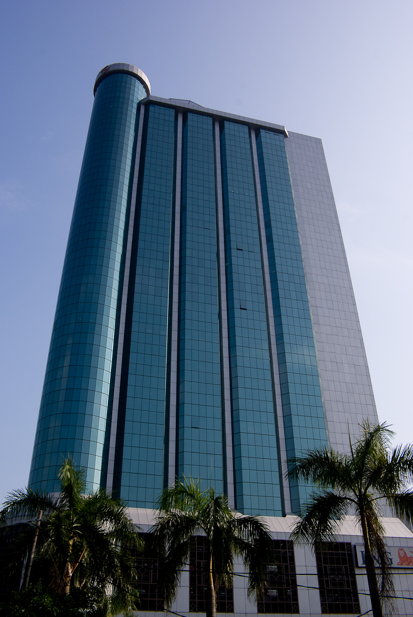 Menara MSC Cyberport (previously known as Menara Sarawak)